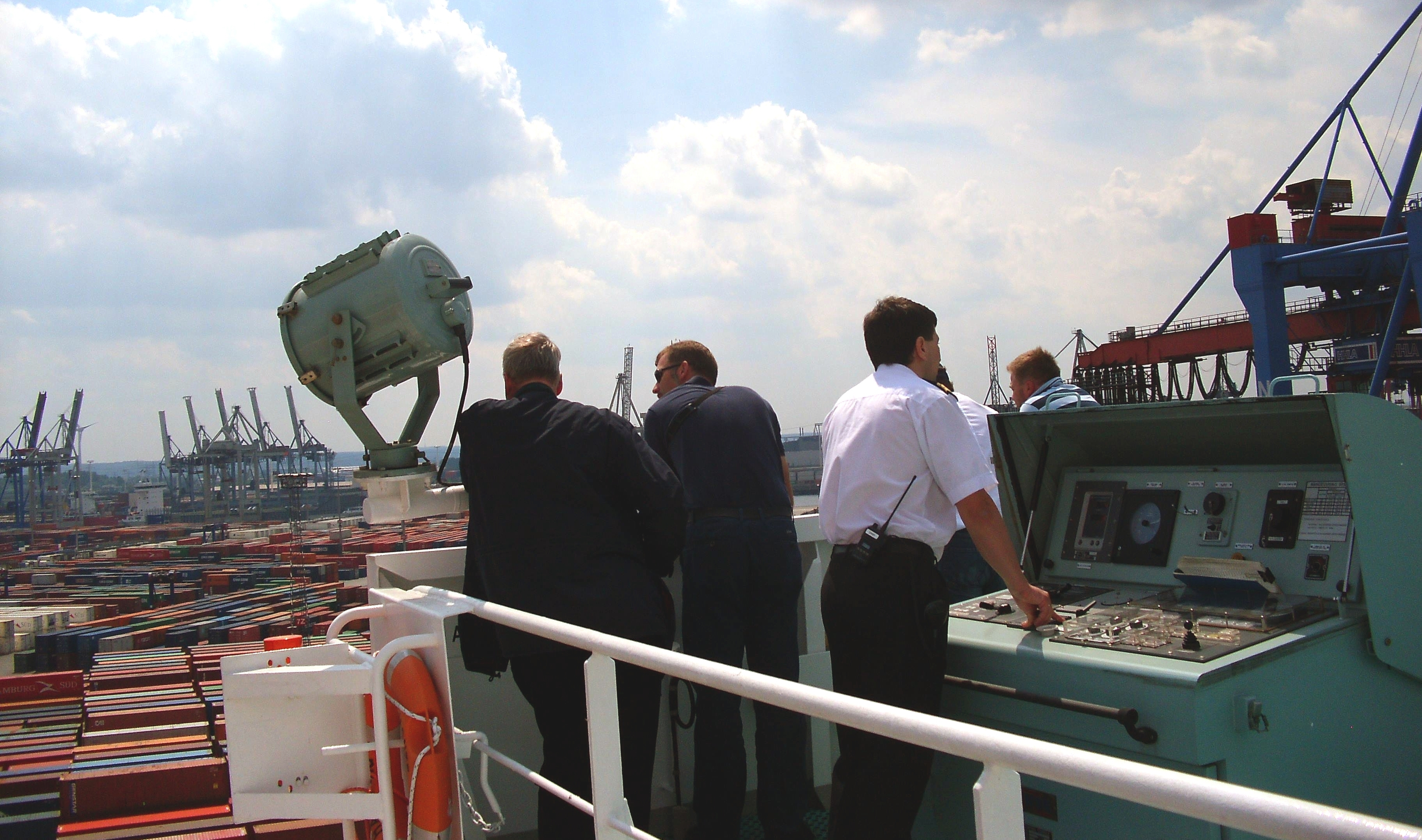 HSDG container ship Monte Alegre 5560 TEU during docking maneuvers at the container terminal in the Port of Hamburg